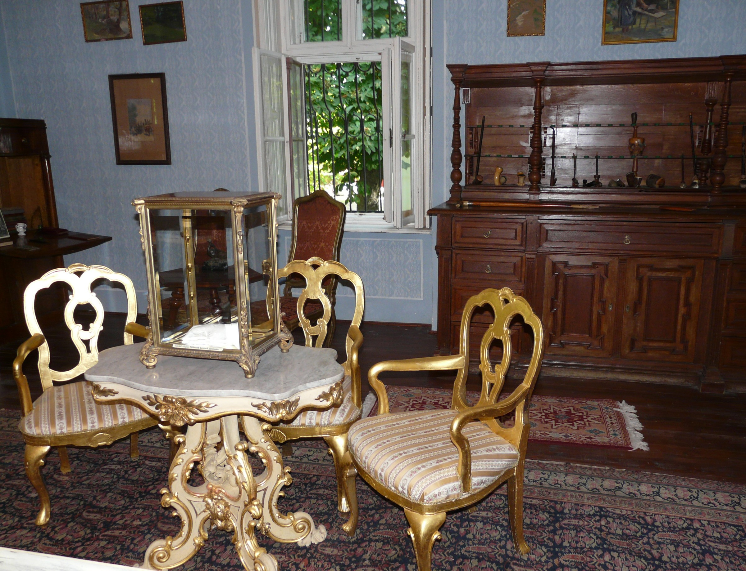 Room interior in Kálmán Mikszáth Memorial House, Horpács